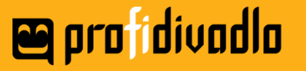 Logo of ProFIdivadlo